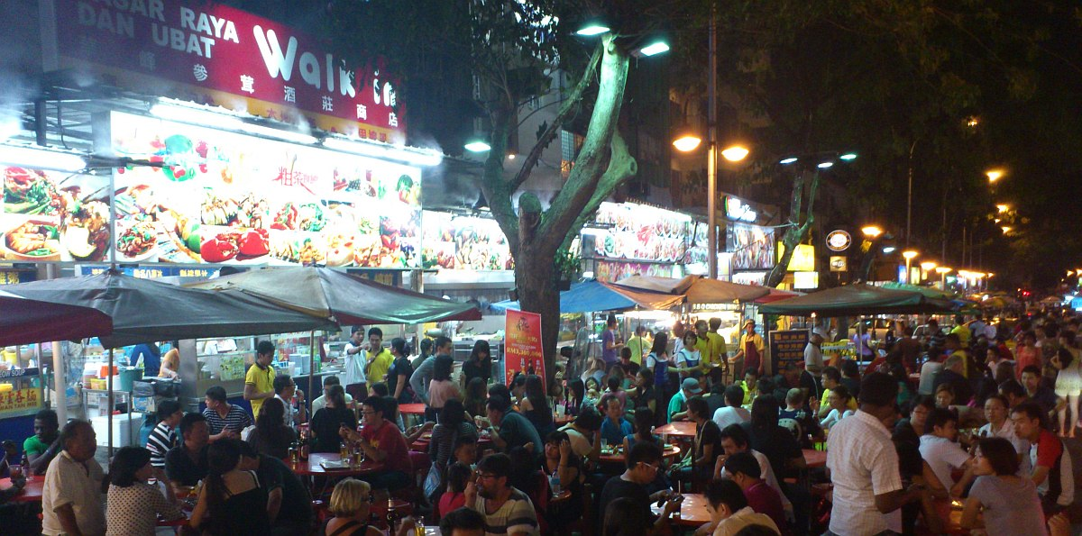 The street Jalan Alor in Kuala Lumpur - well known for local food